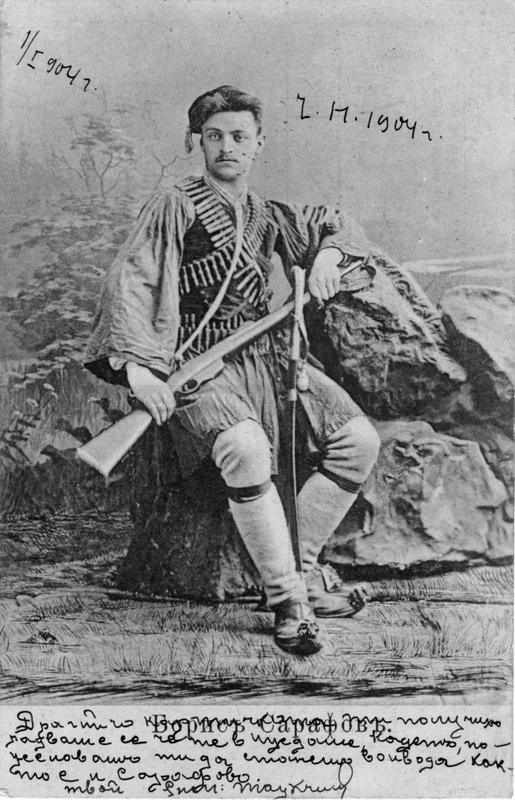 Portrait of Boris Sarafov in traditional cloth of chetnik